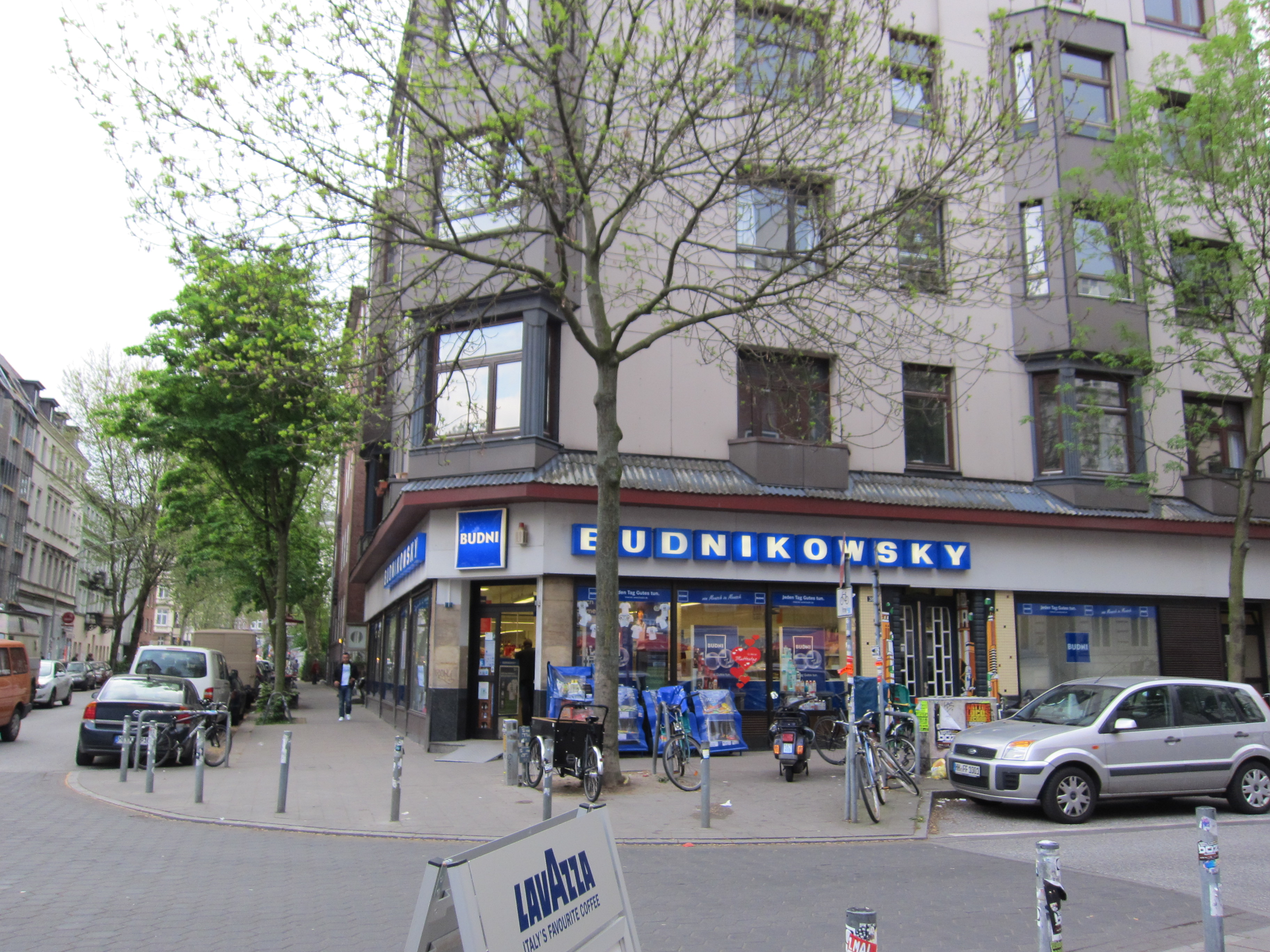 Drugstore "Budni" in Hamburg-St. Pauli